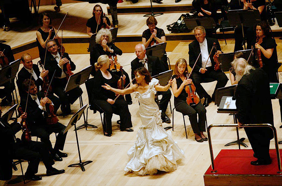 2012 London Olympic Games 'All Eyes on Korea' by KCCUK Soprano Sumi Jo performing at the 'Shining K-Classics' concert, a part of 'All Eyes on Korea' festival. Photo by KCCUK KOCIS 2012 런던 올림픽 주영한국문화원 '오색찬란' 페스티발 K-클래식 소프라노 조수미 공연 사진제공 주영한국문화원 문화체육관광부 해외문화홍보원